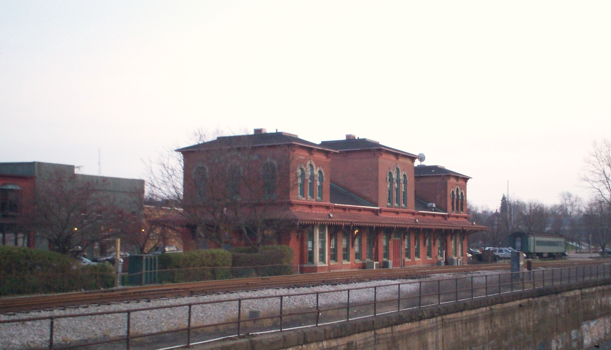 Picture of the former Atlantic & Great Western/Erie Railroad depot in downtown Kent. The building now houses the restaurant, Pufferbelly Ltd. Restaurant & Bar Originally uploaded to English Wikipedia 12 March 2007.